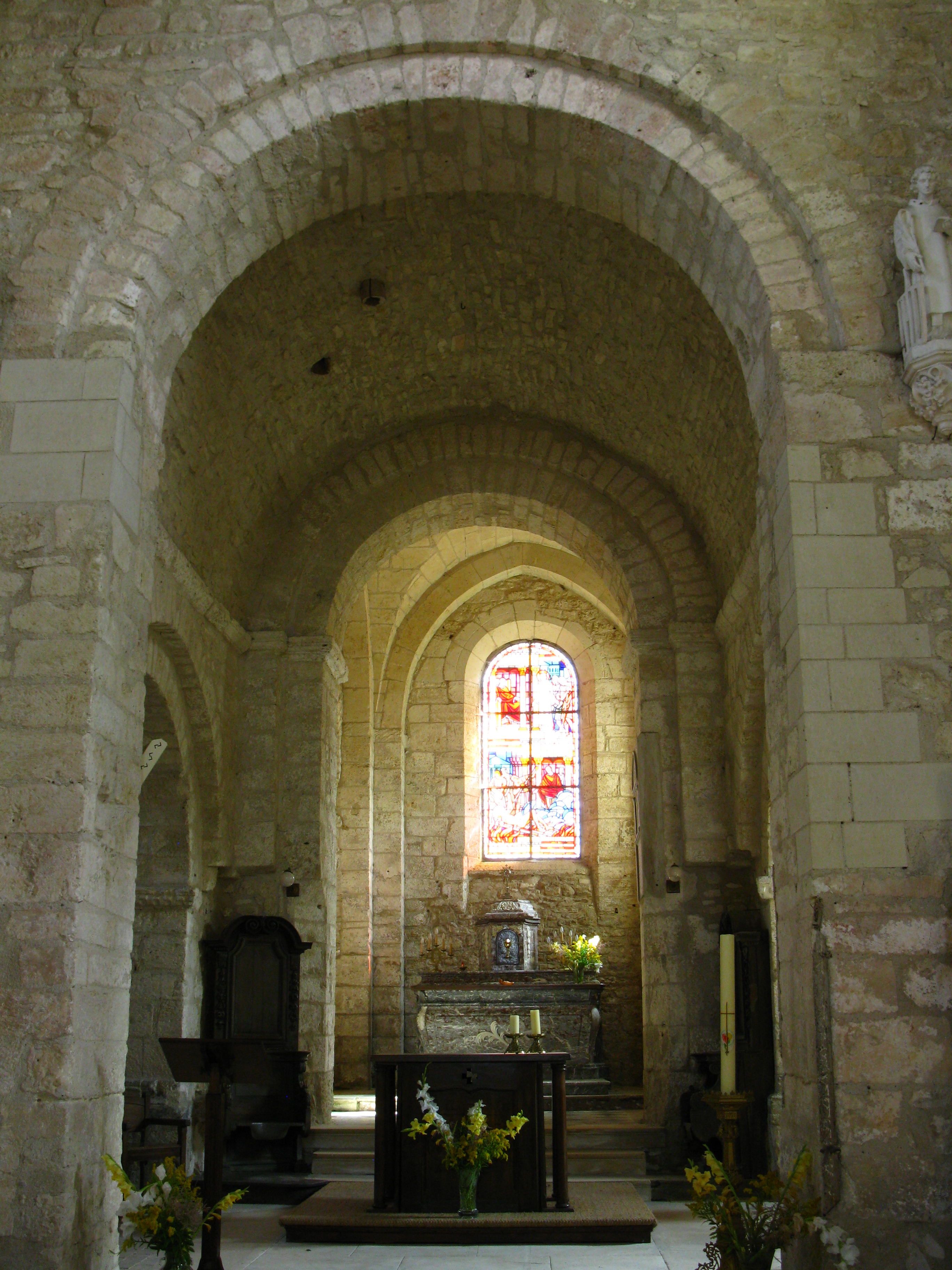 Choir of the Saint-Laurent church, in Ville-en-Tardenois (51), not in the axis of the nave